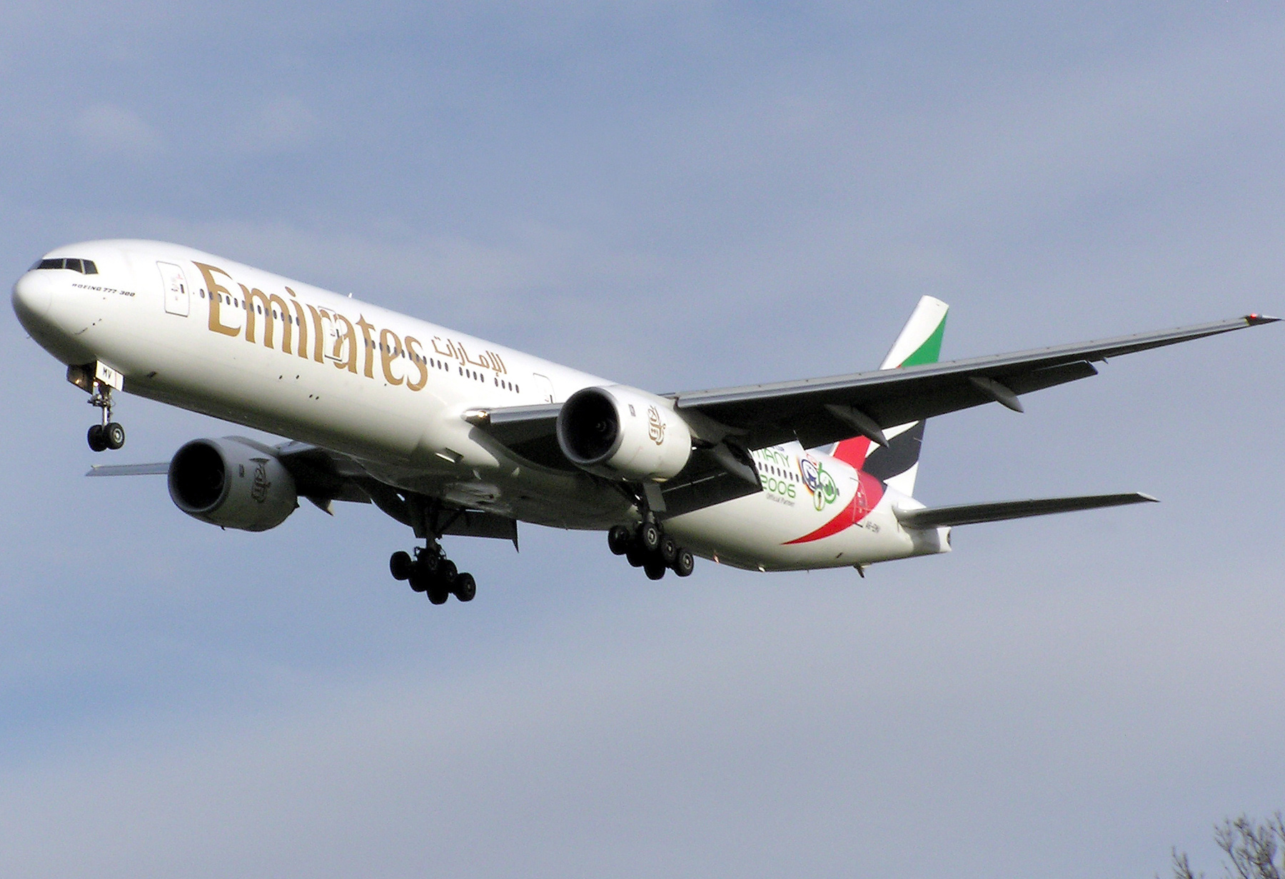 Emirates Boeing 777-300 (A6-EMV) landing at London Heathrow Airport, England. Photographed by Adrian Pingstone in November 2005 and released to the public domain.